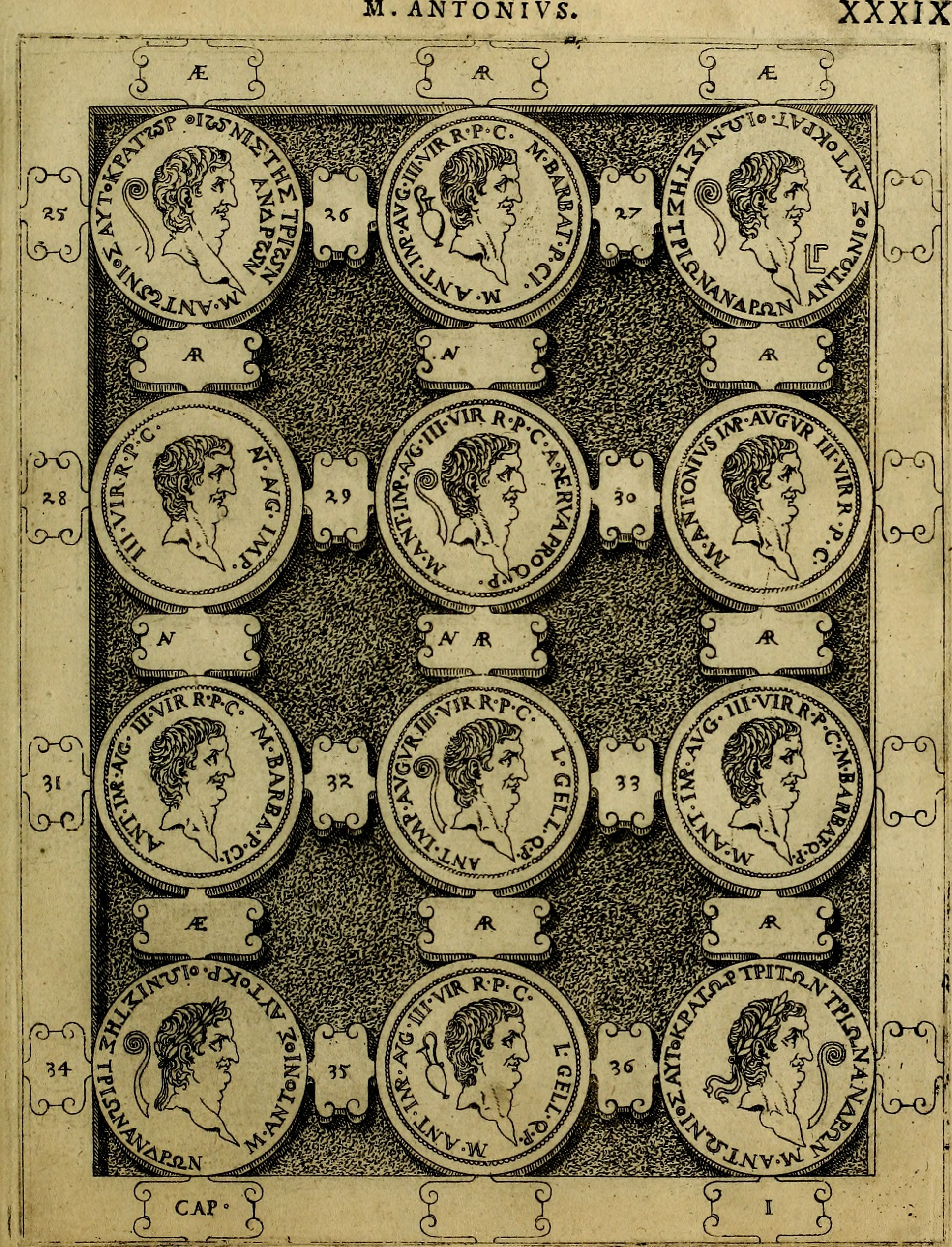 Title: C. Ivlivs Caesar : sive Historiae imperatorvm Caesarvmqve romanorvm ex antiqvis nvmismatibvs restitvtae liber primvs; accessit C. Ivlii Caesaris vita et res gestae Year: 1563 (1560s) Authors: Goltzius, Hubert, 1526-1583 Duke University. Library. Kempner-Gundolf Collection of Julius Caesar Subjects: Caesar, Julius Numismatics, Roman Publisher: Brvgis Flandrorvm : apud Hubertum Goltzium ... Text Appearing Before Image: M. ANTONIVS. Text Appearing After Image: M. Antonius Imperator, Augur,Triumuir R. P. C. XL M. ANTONIVS.